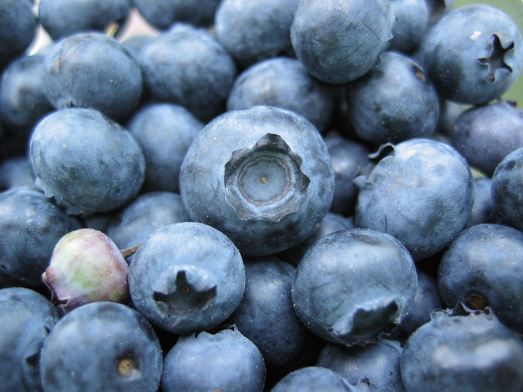 Blueberries.